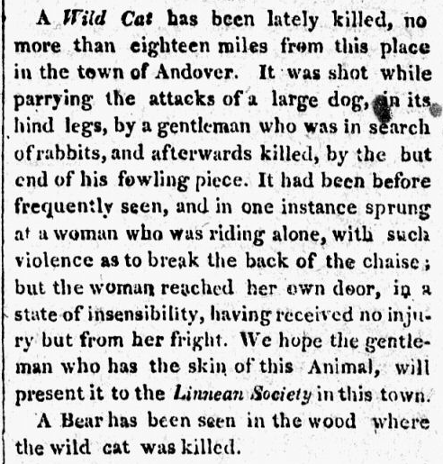 Newspaper item about a wild cat killed in 1817 near Andover, Mass., and the hopes that it will be donated to the Linnaean Society of New England, in Boston.